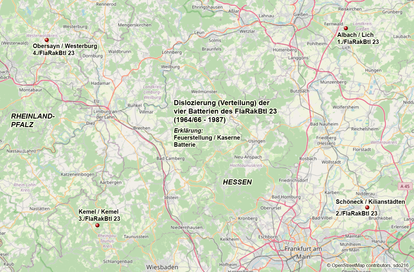 Divisions of German Luftwaffe Missile Battalion 23, Nike Hercules Missile, 1964/66 - 1987 in Germany, nuclear war heads for the missiles were stored nearby in safe custody by the US Army